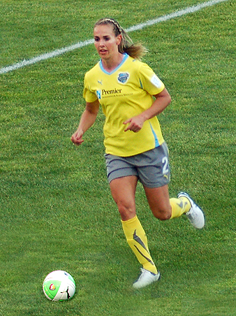 Heather Mitts of the WPS Philadelphia Independence.